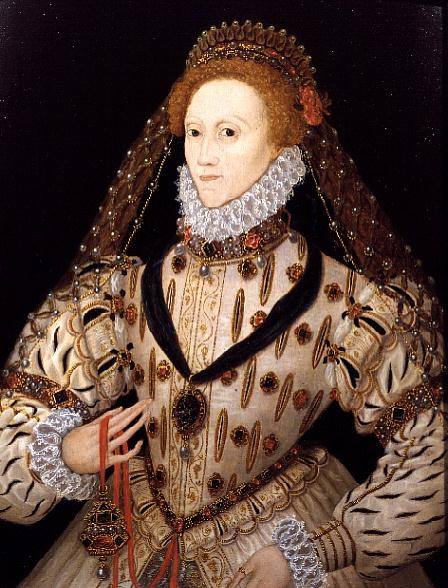 Elizabeth I of England, oil on panel. Early 17th century variant (reversed) of portrait of c. 1571-75 (see Janet Arnold, Queen Elizabeth's Wardrobe Unlock'd, pp. 19-21).